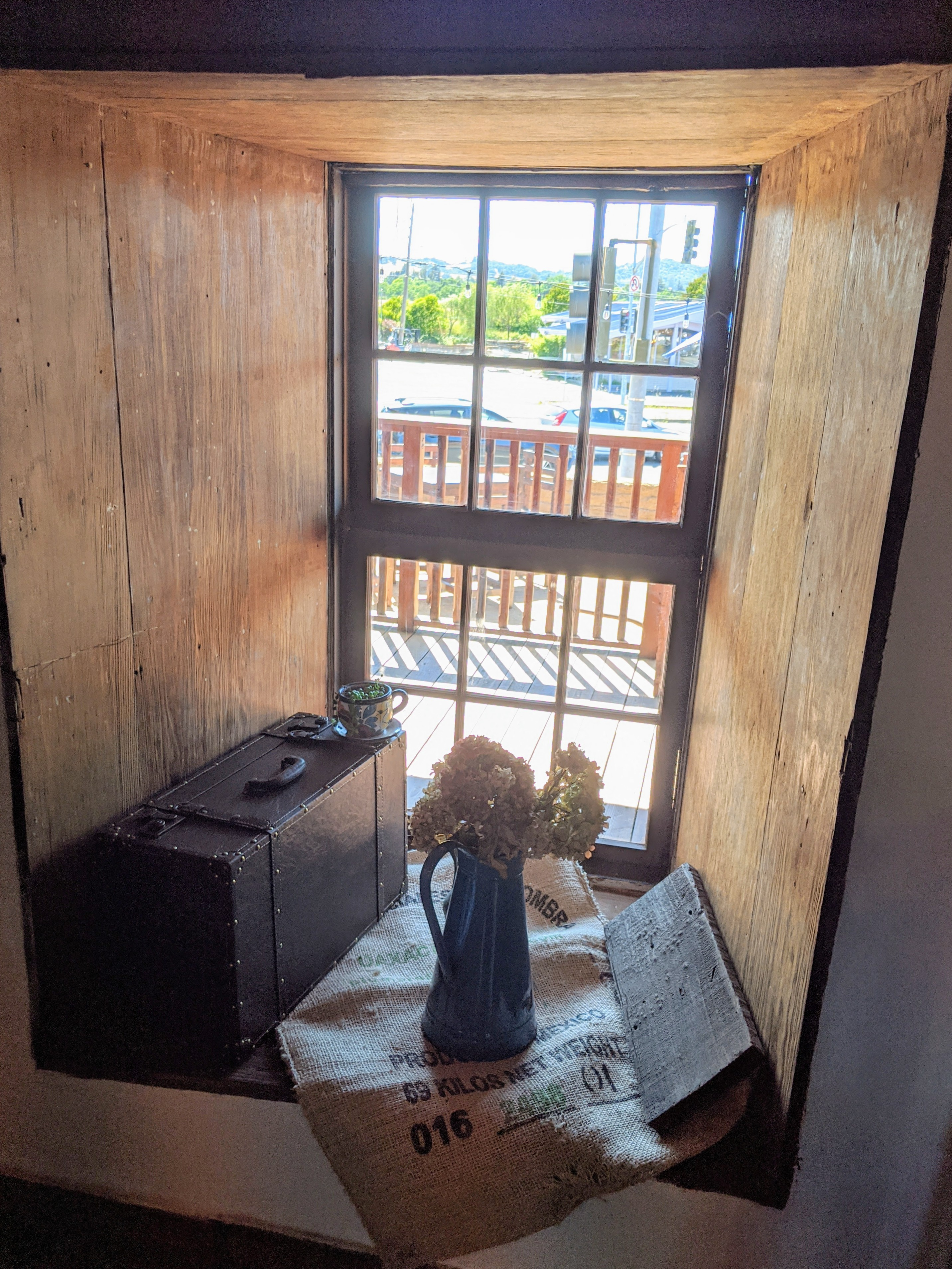 A window at the Cayetano Juarez Adobe, showing the thickness of the adobe walls. Photo by Jim Heaphy.